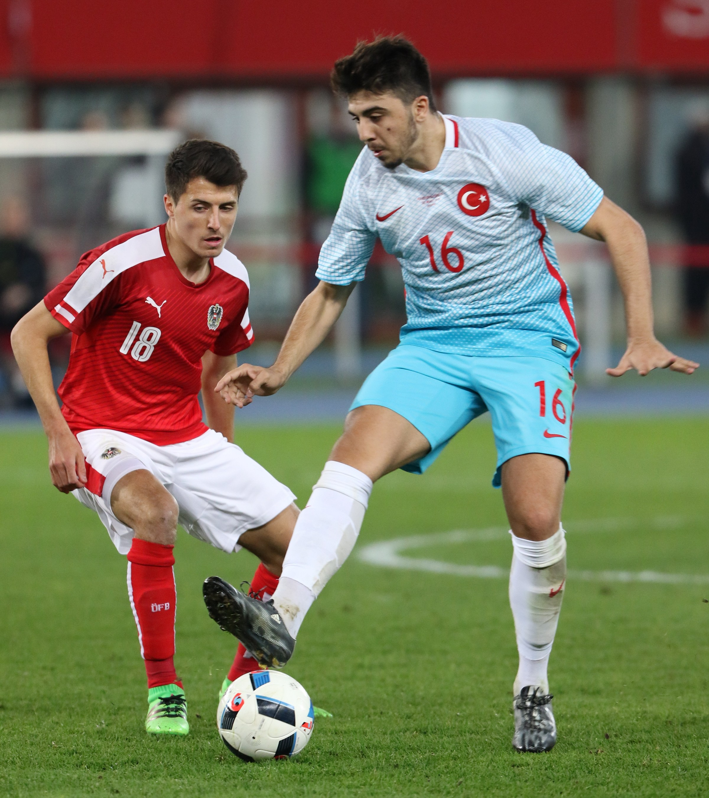 Friendly match – Austria (red shirts) vs. Turkey (blue shirts) 1–2 (1–1) on 2016-03-29 in Ernst-Happel-Stadion, Vienna – The photo shows Ozan Tufan (right) and Alessandro Schöpf (left).